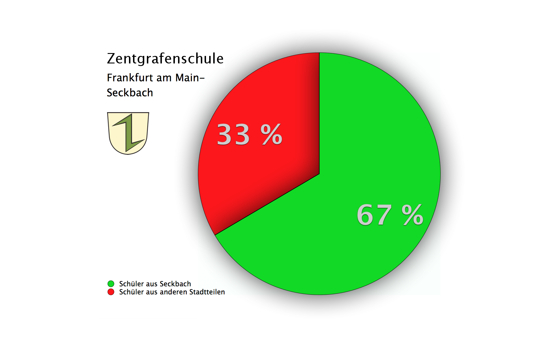 Pupils catchment area of elementary school Zentgrafenschule in the borrough Seckbach of Frankfurt, Hesse, Germany.